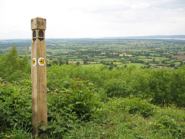 Stinchcombe Hill, near Dursley This photo was taken from one of the viewpoints on Stinchcombe Hill.